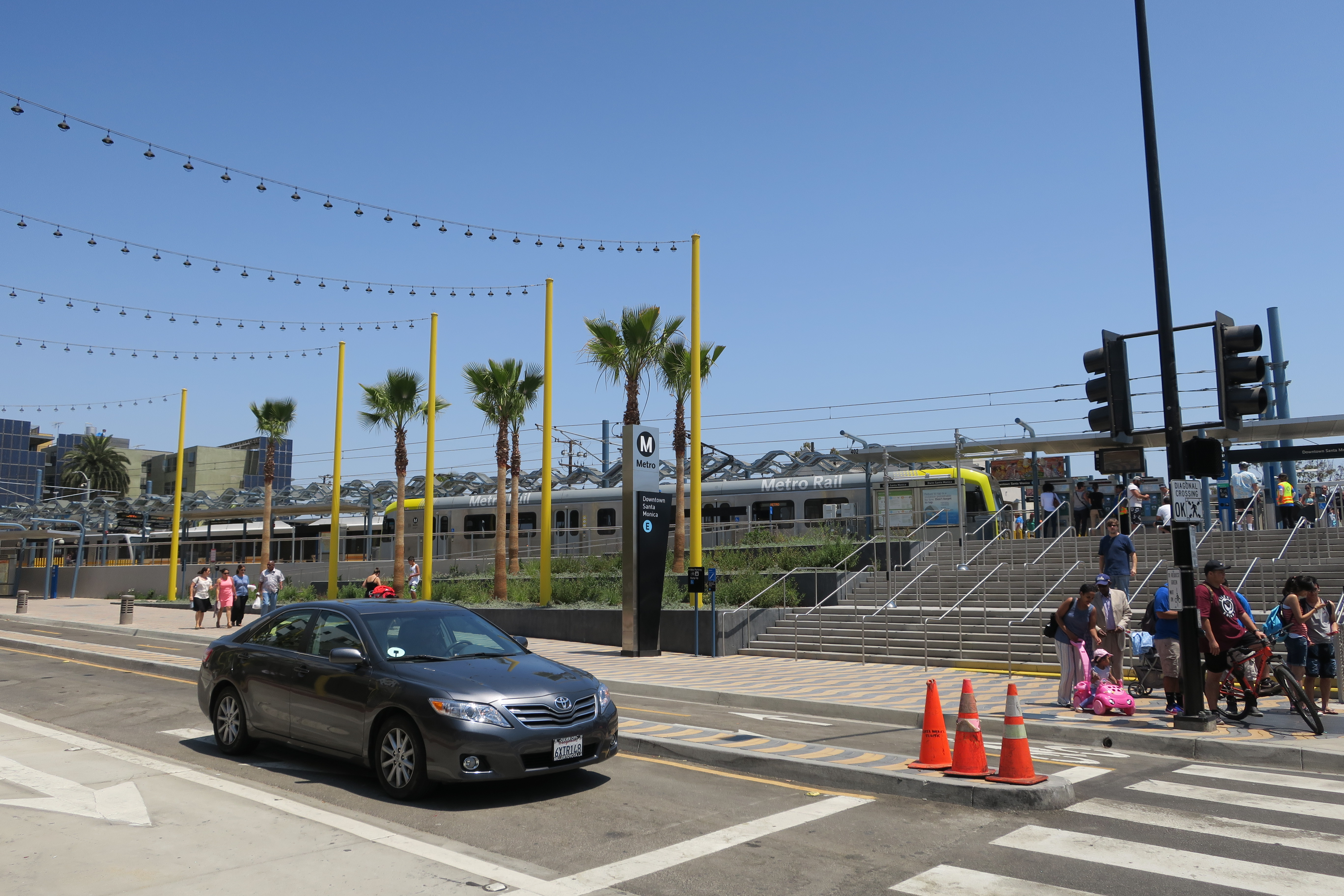 The Downtown Santa Monica station, this picture taken from the western corner of the 4th St. and Colorado Ave. intersection.